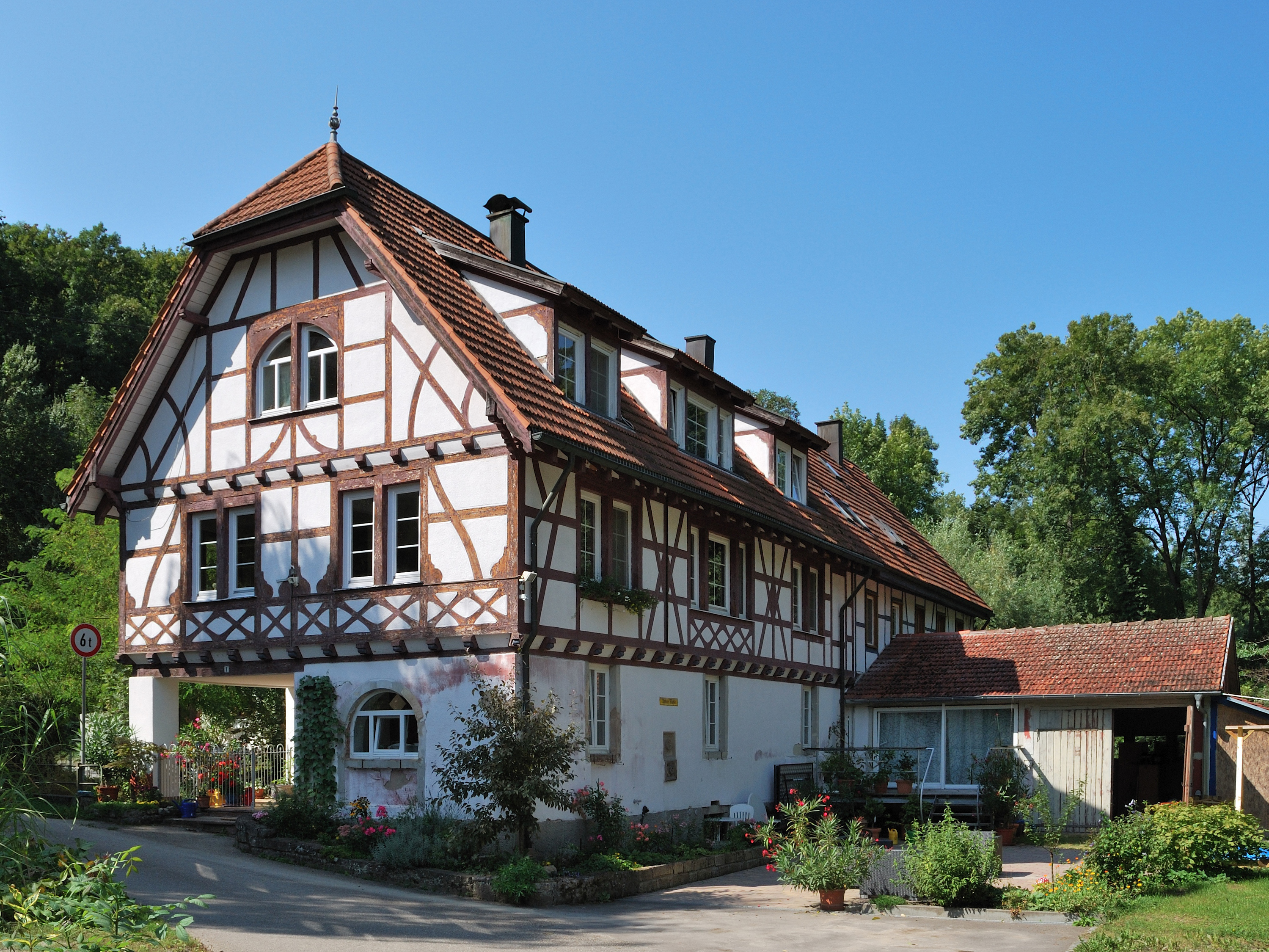 Untere Mühle is a former water mill on the river Glems in Markgröningen in the federal state Baden-Württemberg in Southern Germany. The mill was first mentioned in the year 1304 and worked until 1971. The building serves today as an apartment house.